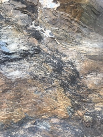 The dark Sisco lamproite is intruding its metamorphic country rocks of the Castagnicchia series. Sisco, Corsica, France.